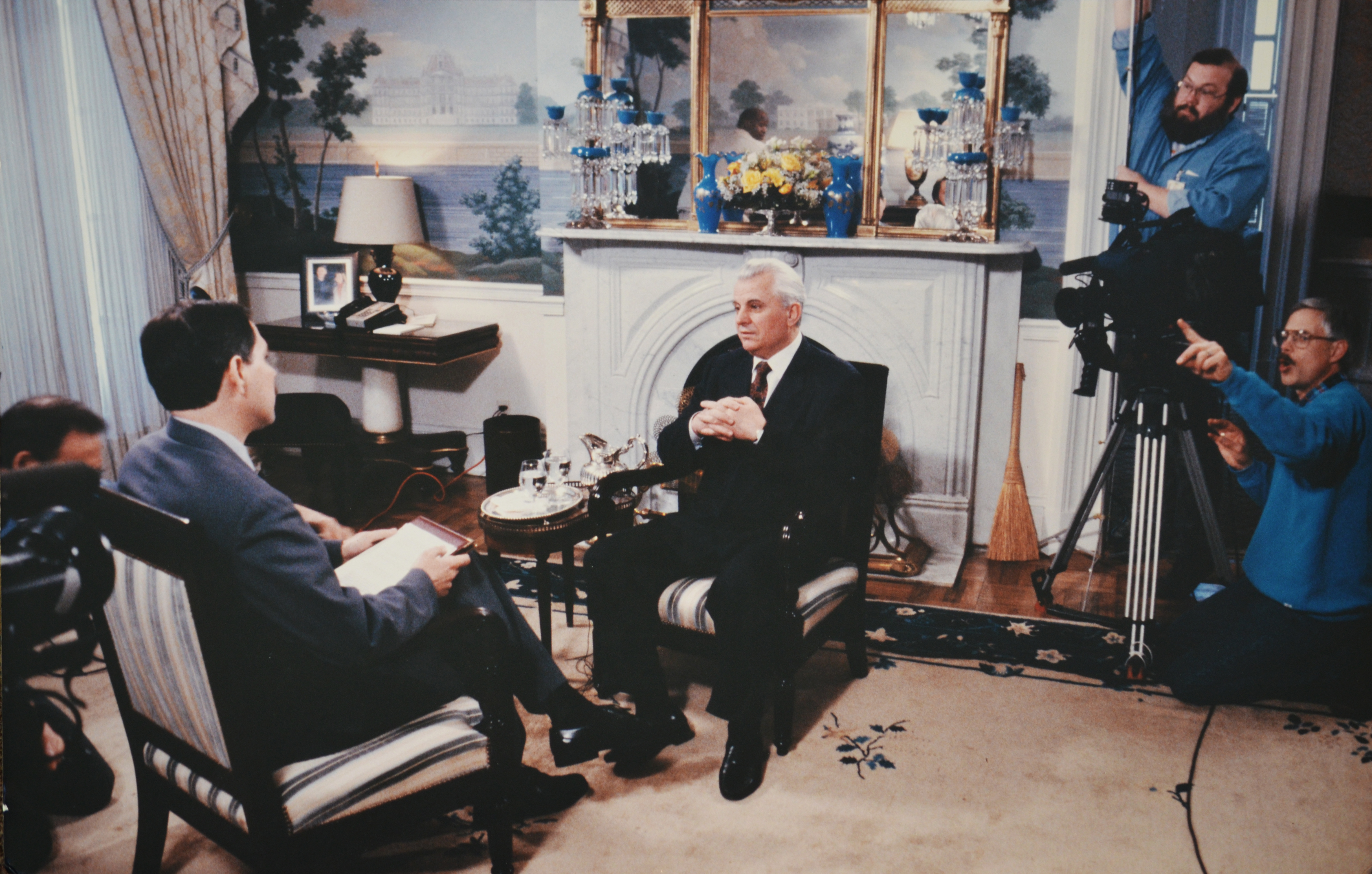 Peter Fedynsky Interviewing President Kravchuk in the Blair House, March 1994